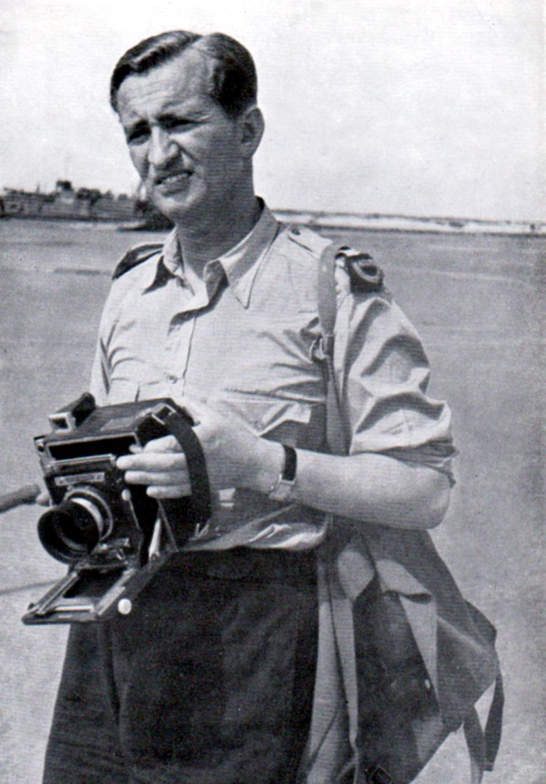 Norwegian war photographer Ole Friele Backer, self portrait.